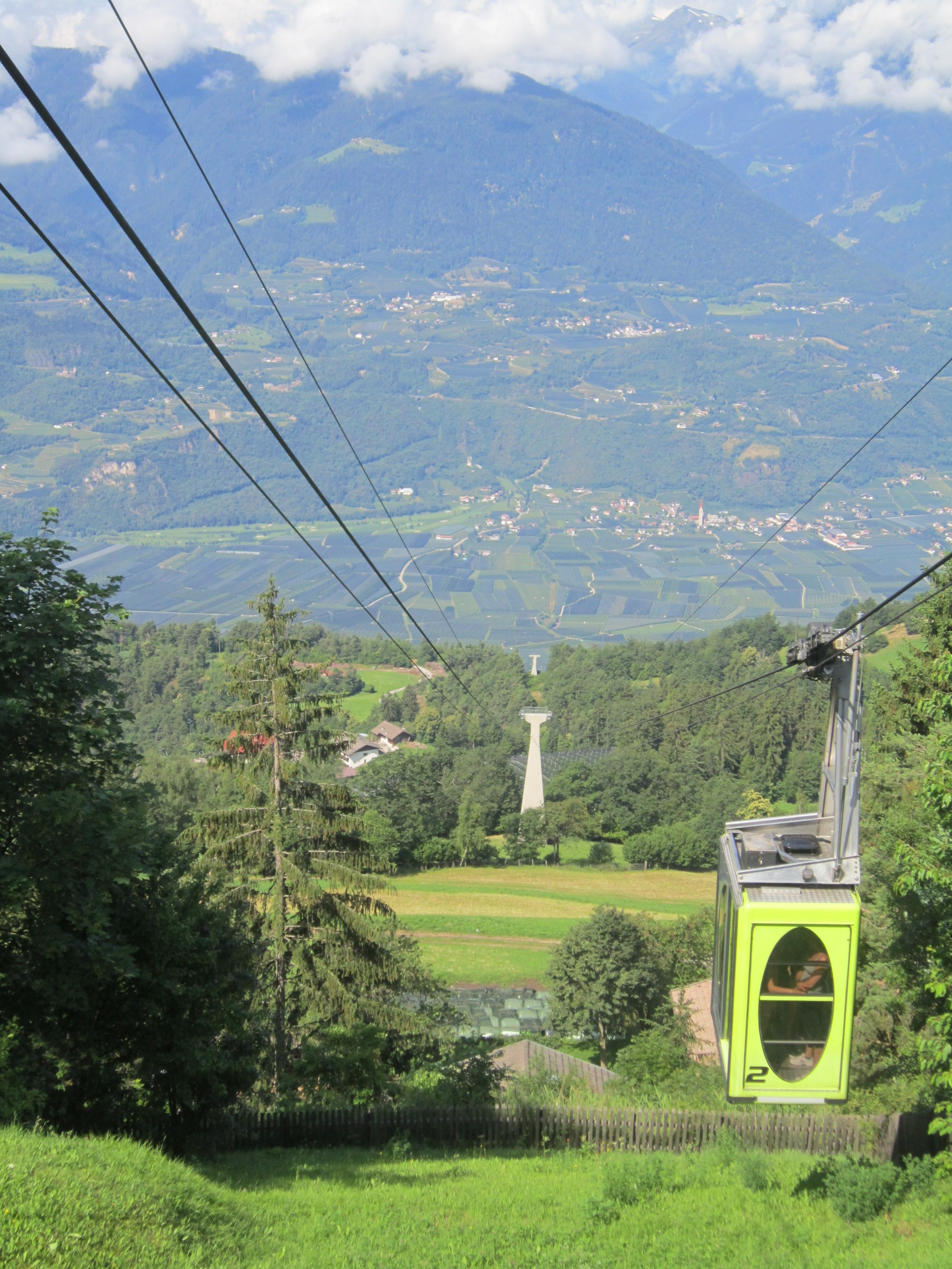 Cable railway from Burgstall to Vöran (South Tyrol)